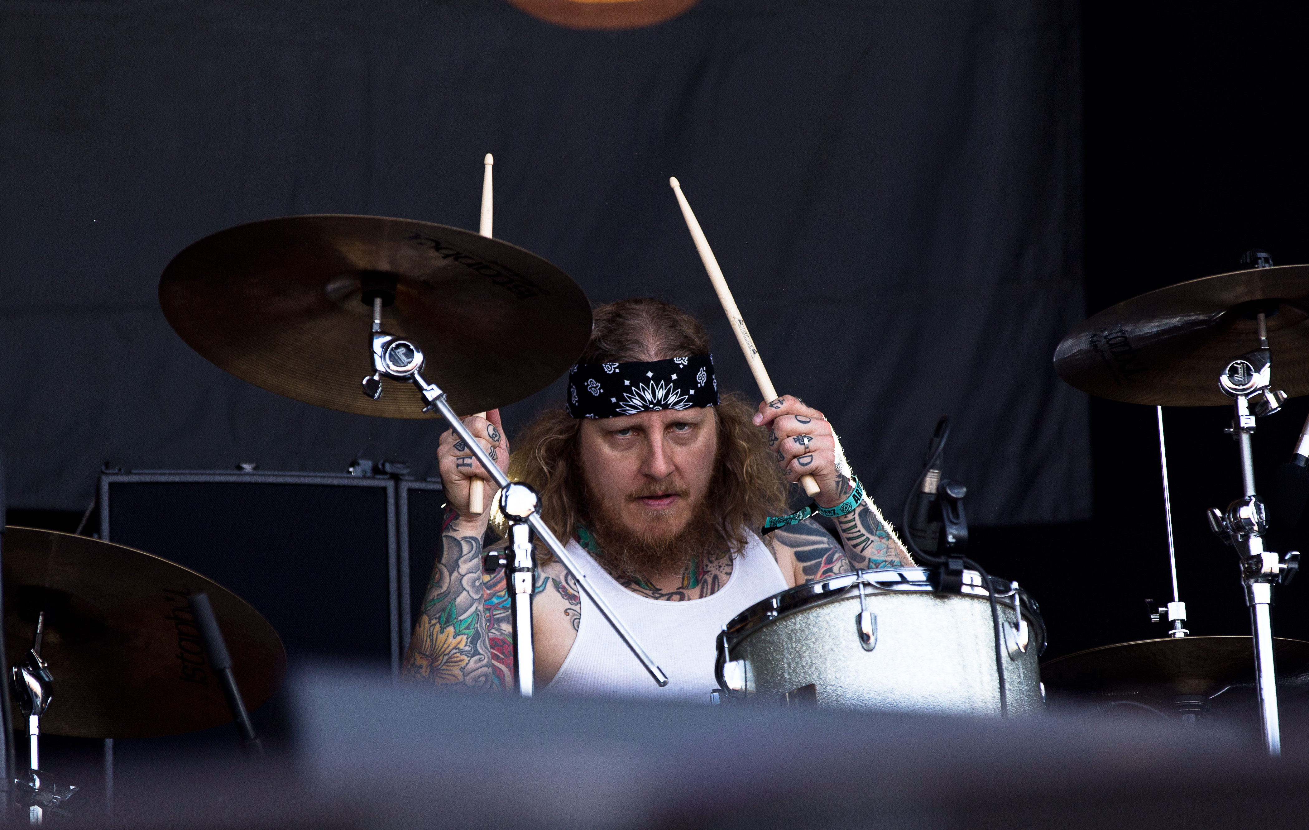 The Swedish stoner metal band Spiritual Beggars at the Rockharz Open Air 2016 in Ballenstedt/Germany.